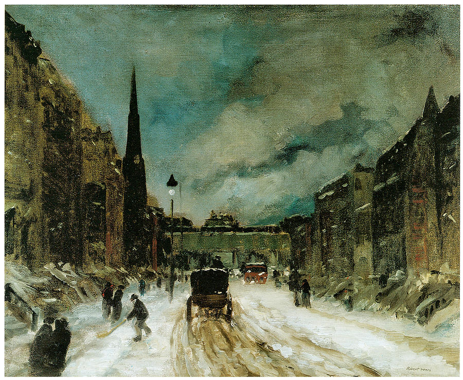 Streetscene with snow